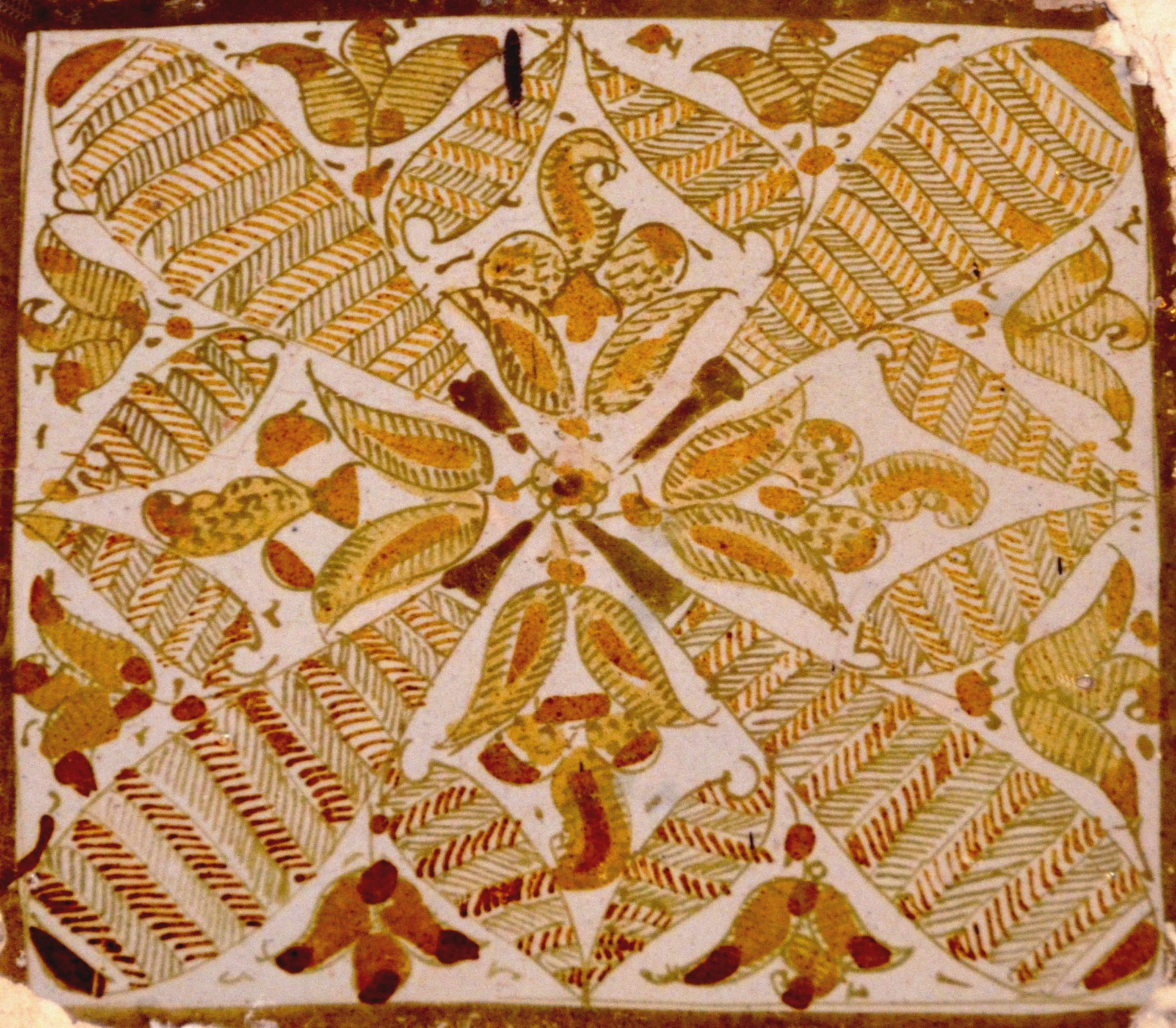 Luster tile, dating from the 9th century, of the mihrab in the Great Mosque of Kairouan, in Tunisia.